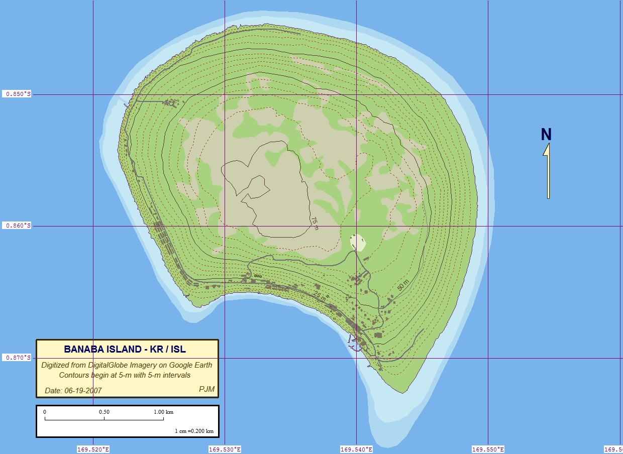 Banaba Island Marplot